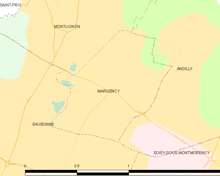 Map of French municipality Margency